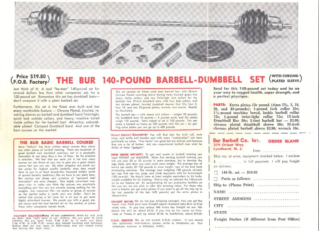 BUR-140 Mailer - Mid-1950's- Part of a BUR Barbell Brochure